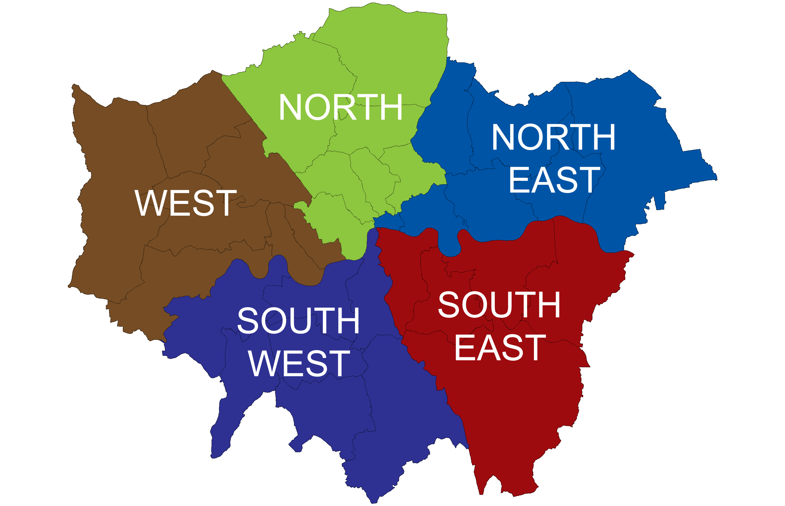 Sub regions of Greater London established in 2008